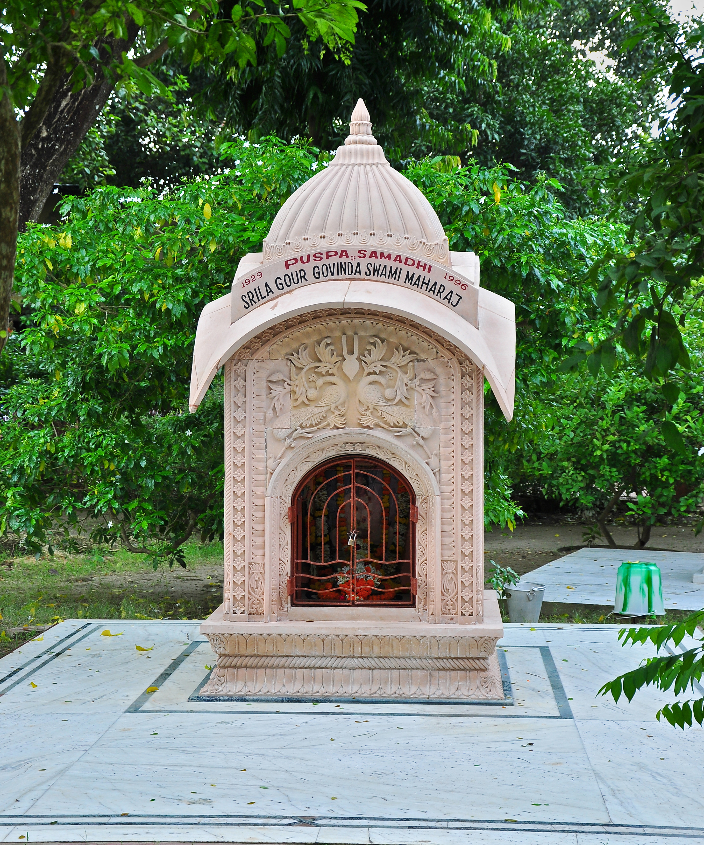 Puspa Samadhi of Srila Gour Govinda Swami Maharaj at ISKCON, Mayapur, West Bengal, India.